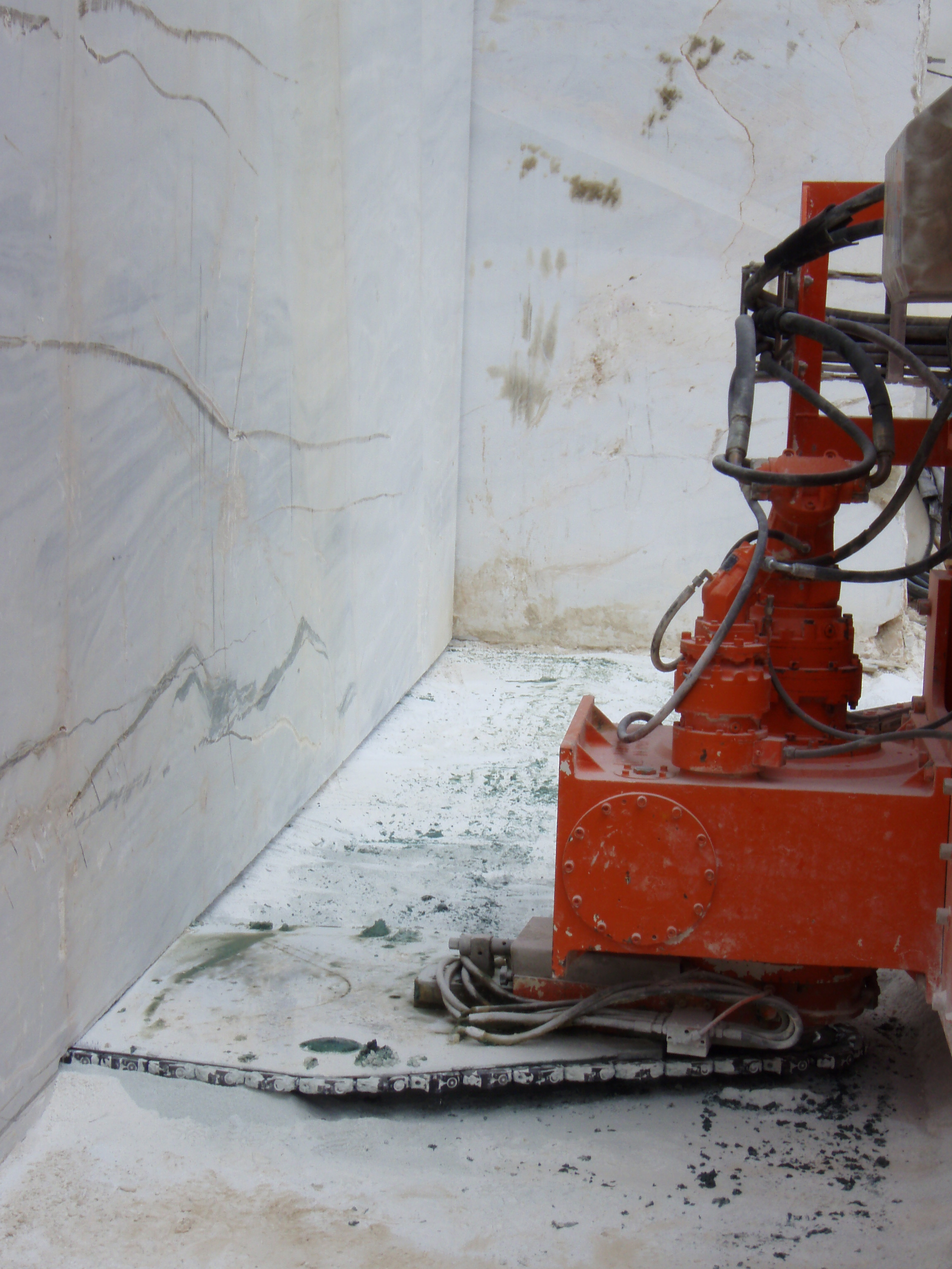 The world-renowned "Dionyssos-Pentelicon" marble by "Dionyssomarble Co. S.A.